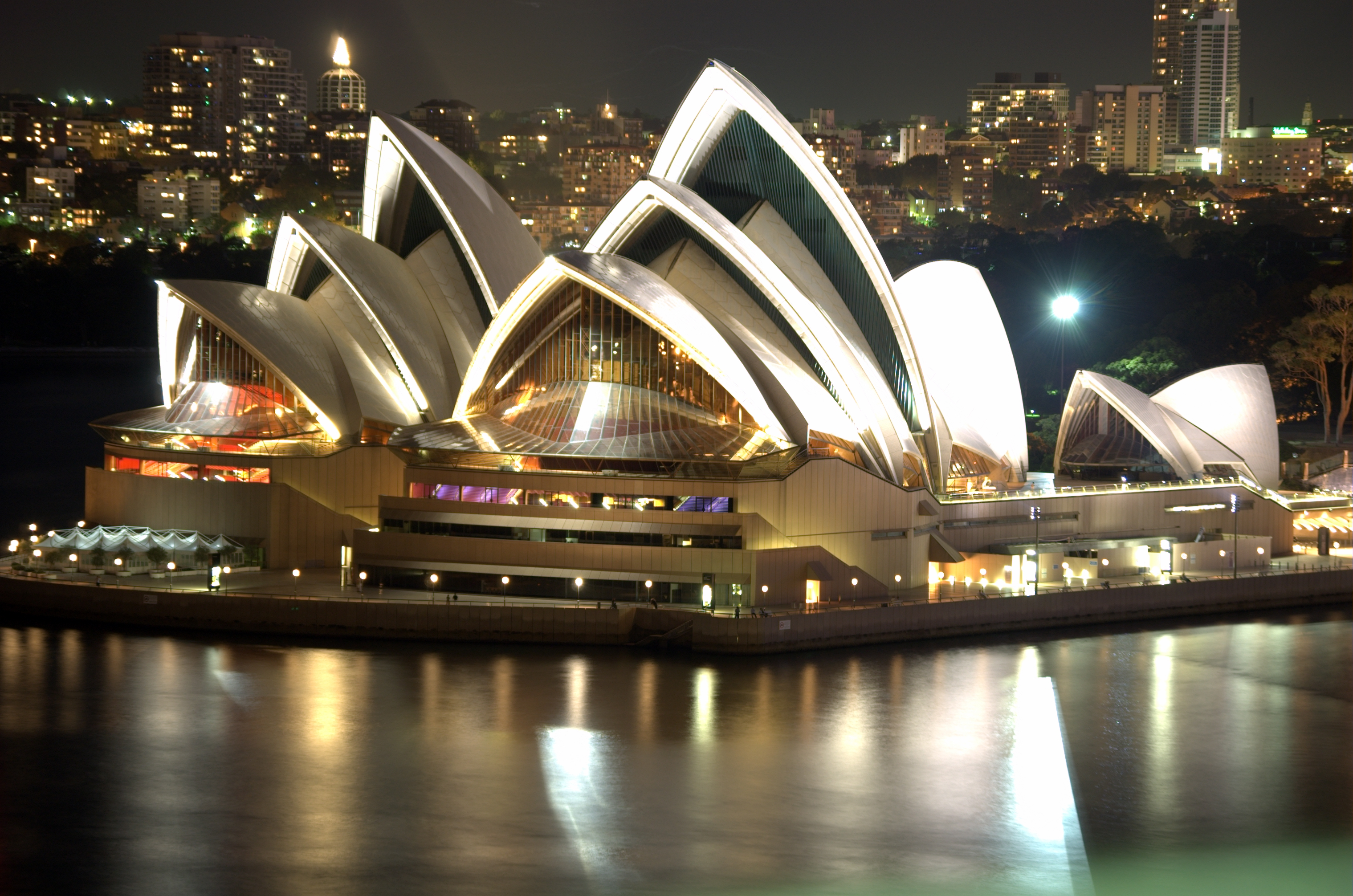 Photo of Sydney Opera House at night by Anthony Winning from Harbour Bridge. Taken 26 Dec, 2005.